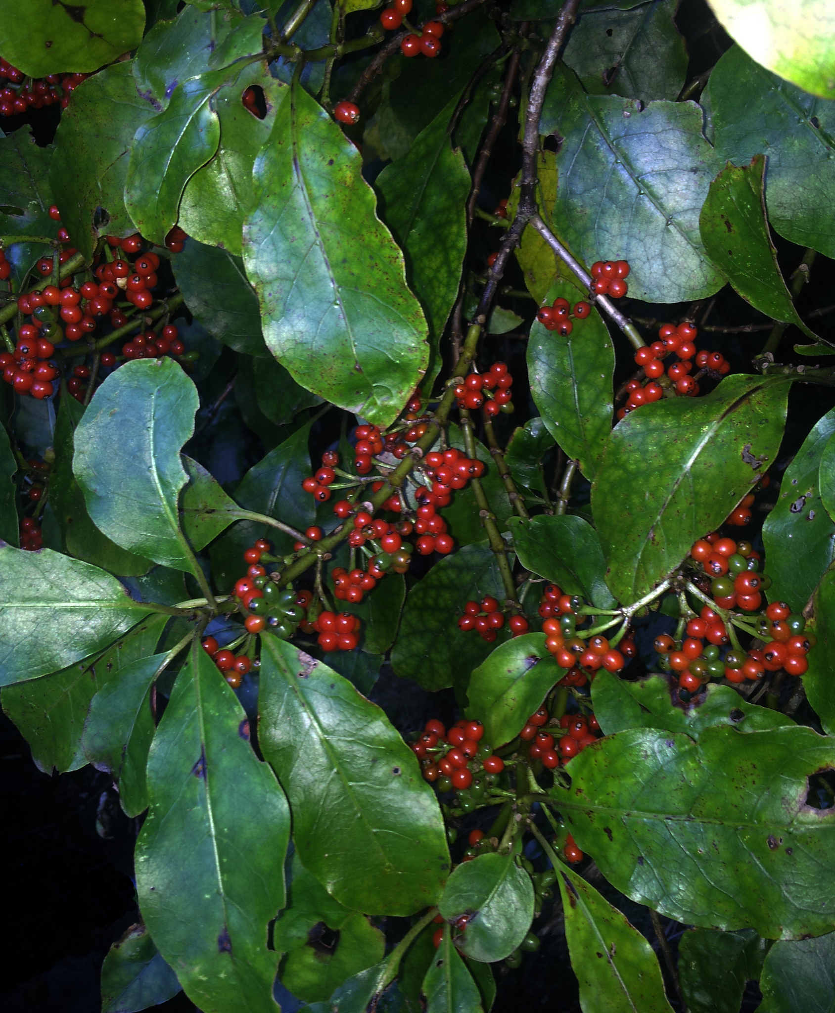 Coprosma grandifolia (Q5168955) by Peter de Lange via iNaturalist